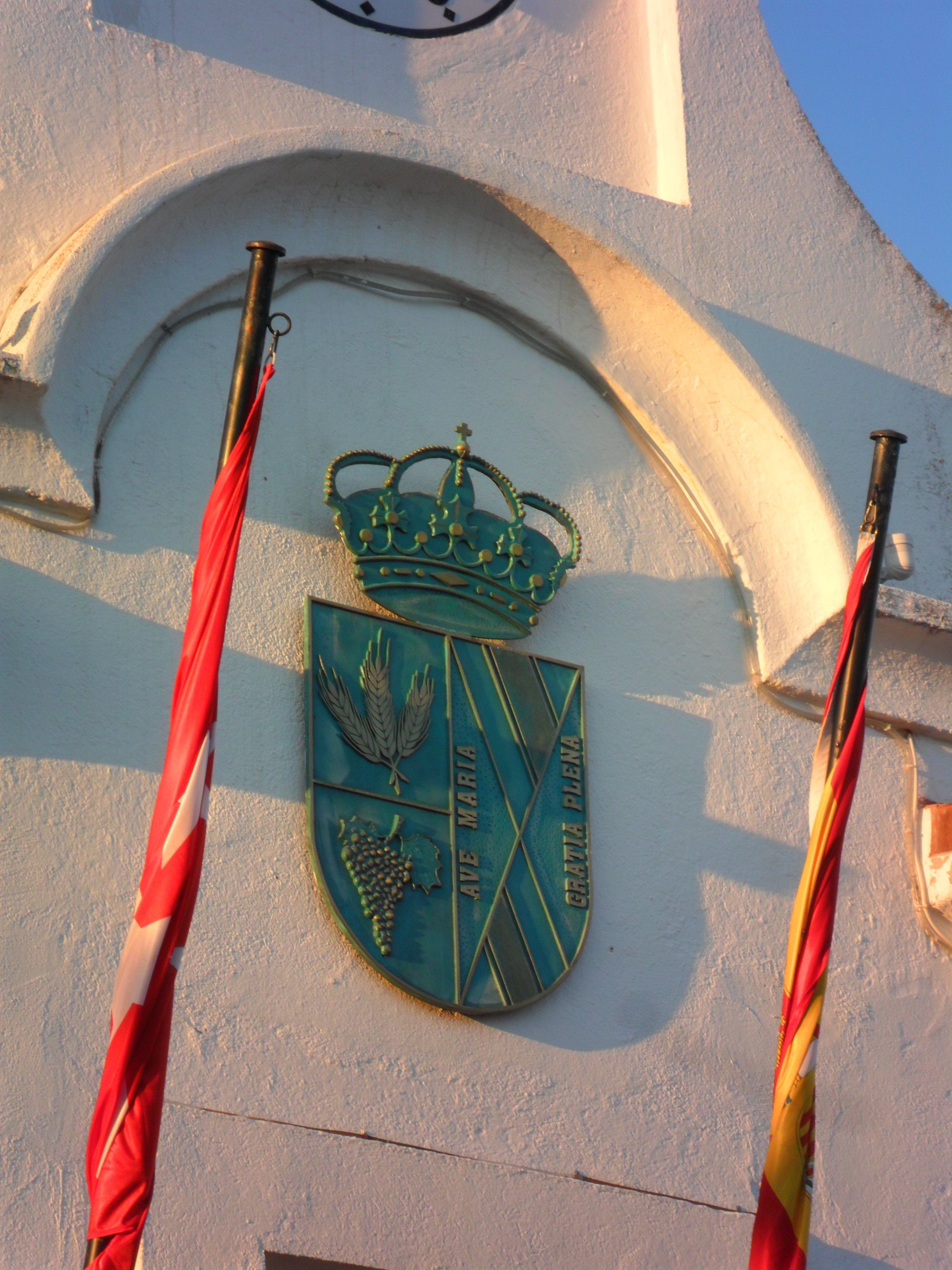 Coats of arms of Villanueva del Pardillo as portrayed in the City Hall.